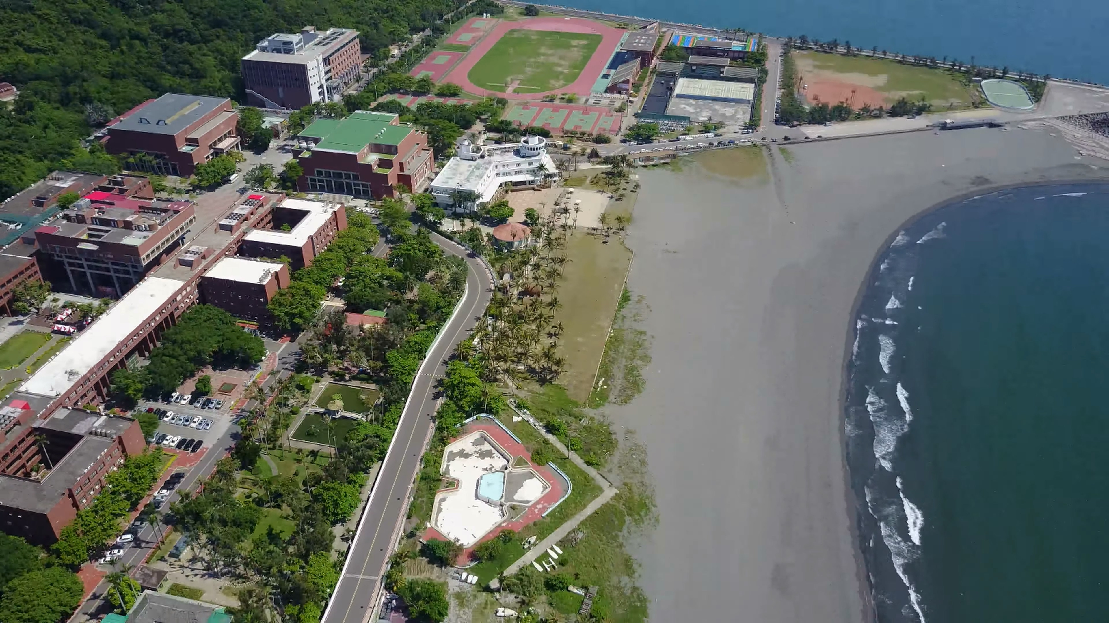 Sizihwan and National Sun Yat-sen University